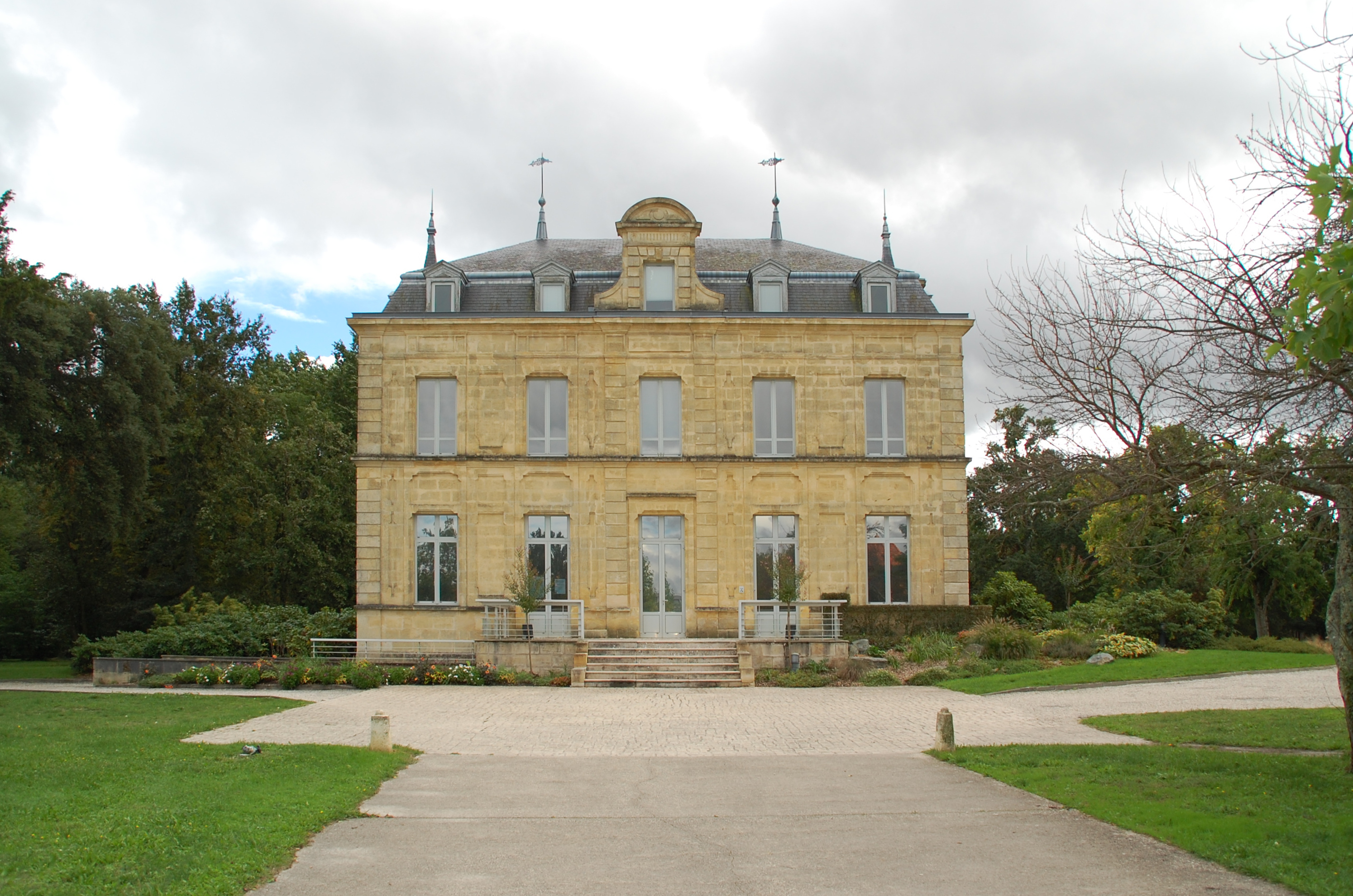 Cazalet Castle, Pessac.